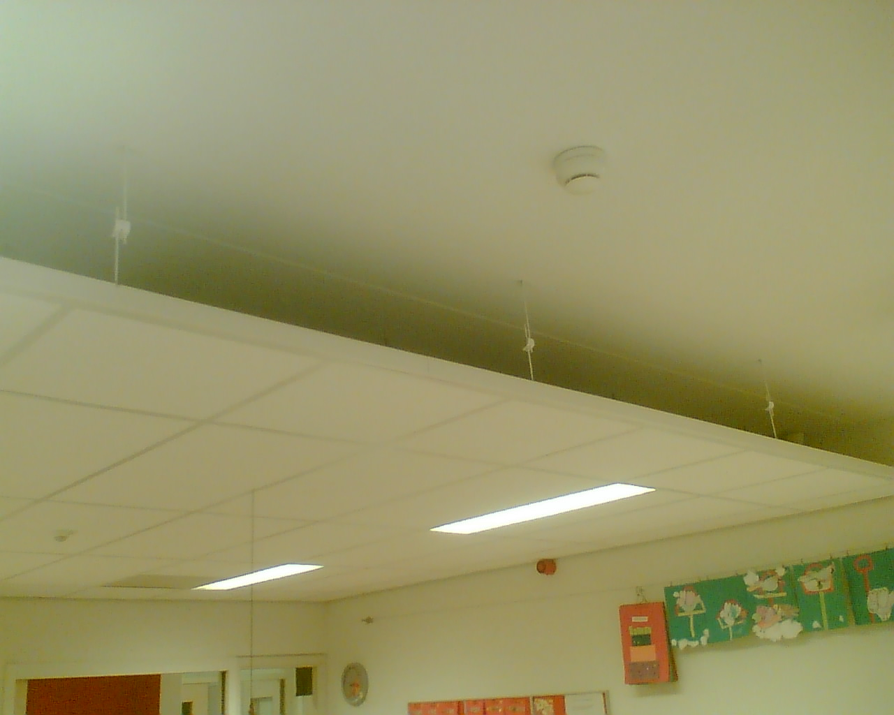 Ceiling system in a school building. You can see the system that fixes the ceiling to the actual ceiling.